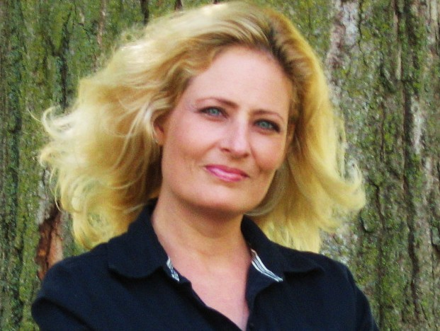 Journalist and author, Erika Celeste